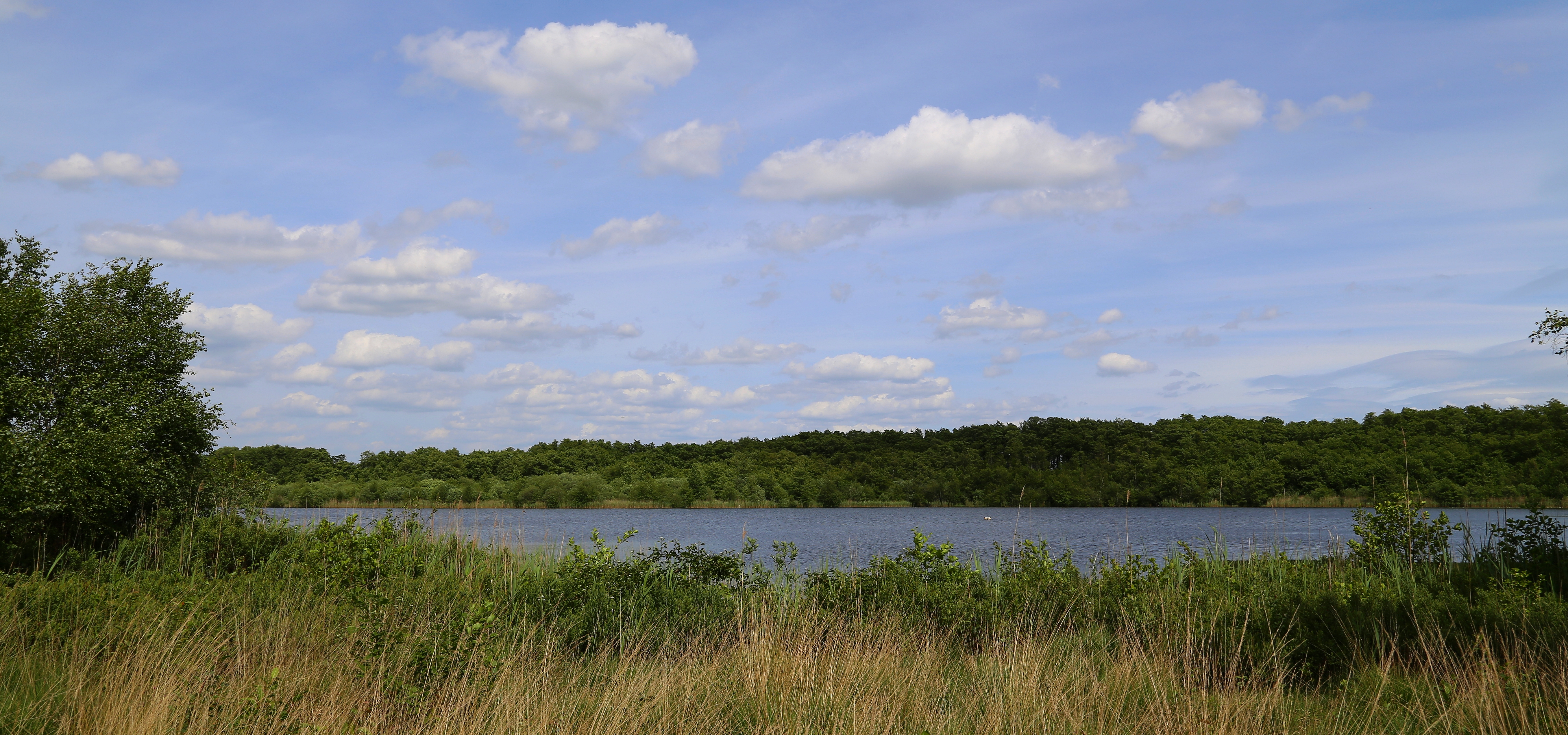 Lake Großes Heiliges Meer [Great Holy Sea] in the nature reserve „Heiliges Meer-Heupen“ situated between Hopsten and Recke, Kreis Steinfurt, North Rhine-Westphalia, Germany.